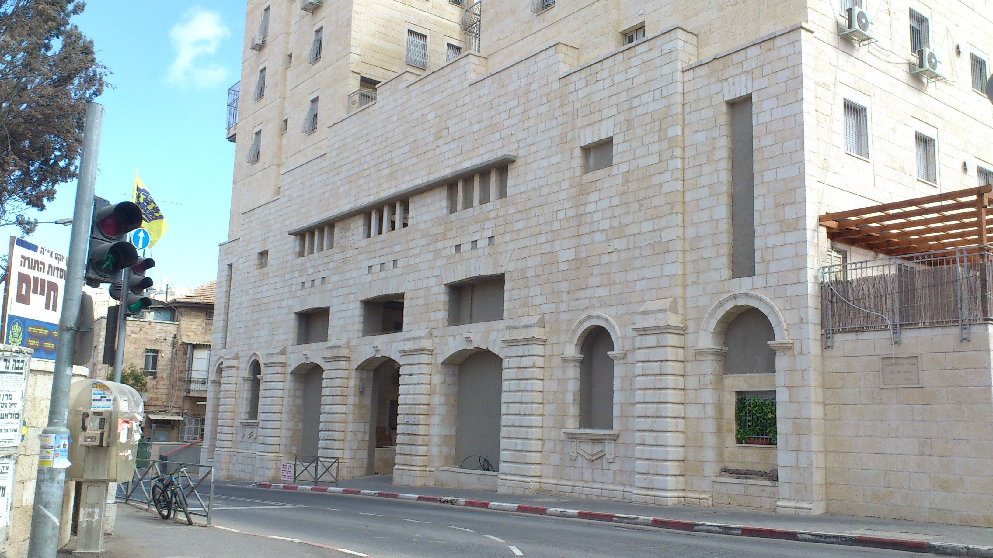 Jerusalem, Yisha'ayahu street, Edison Cinema (Jerusalem)